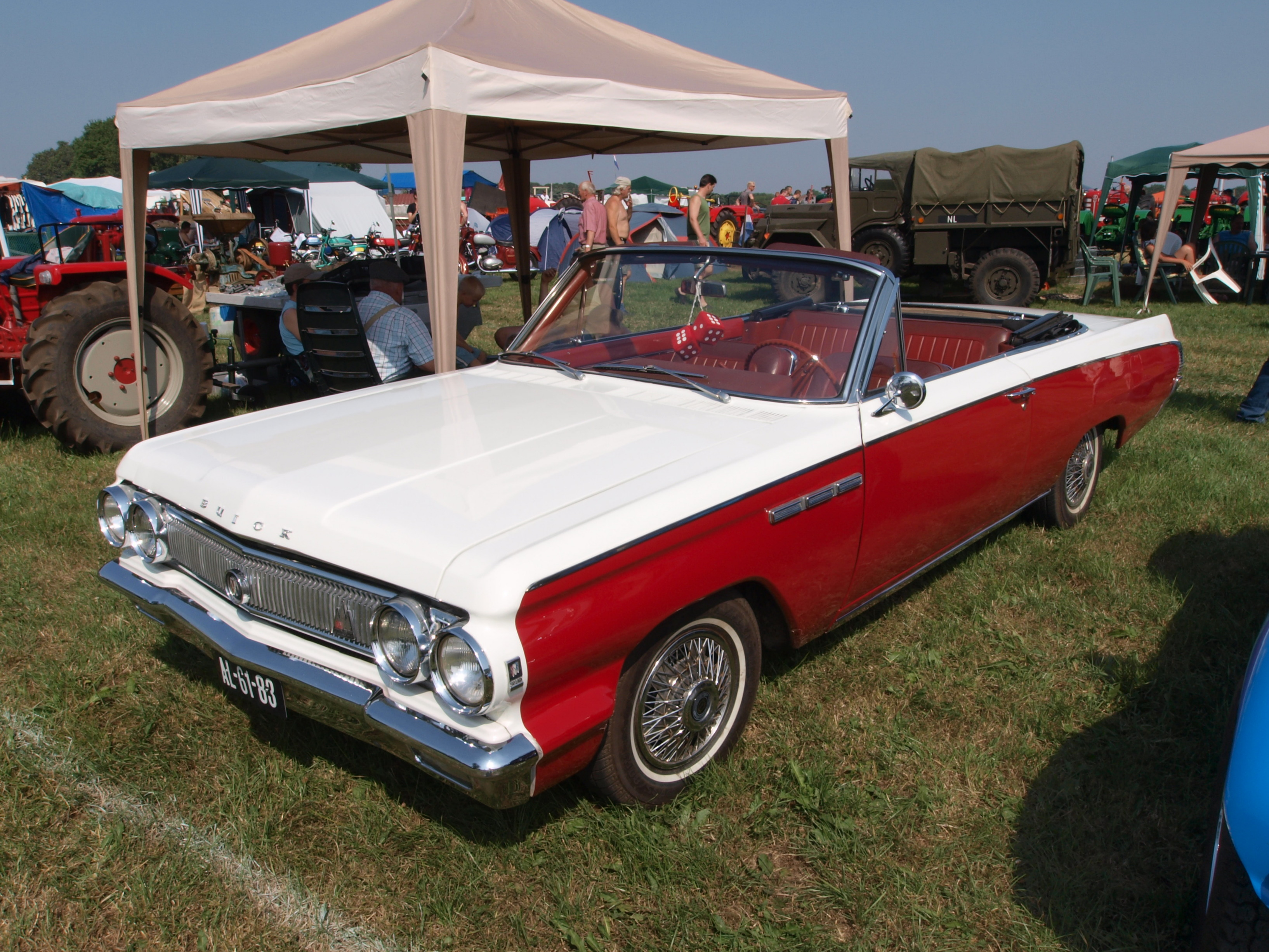 Photographed in The Netherlands. 1963 Buick Skylark